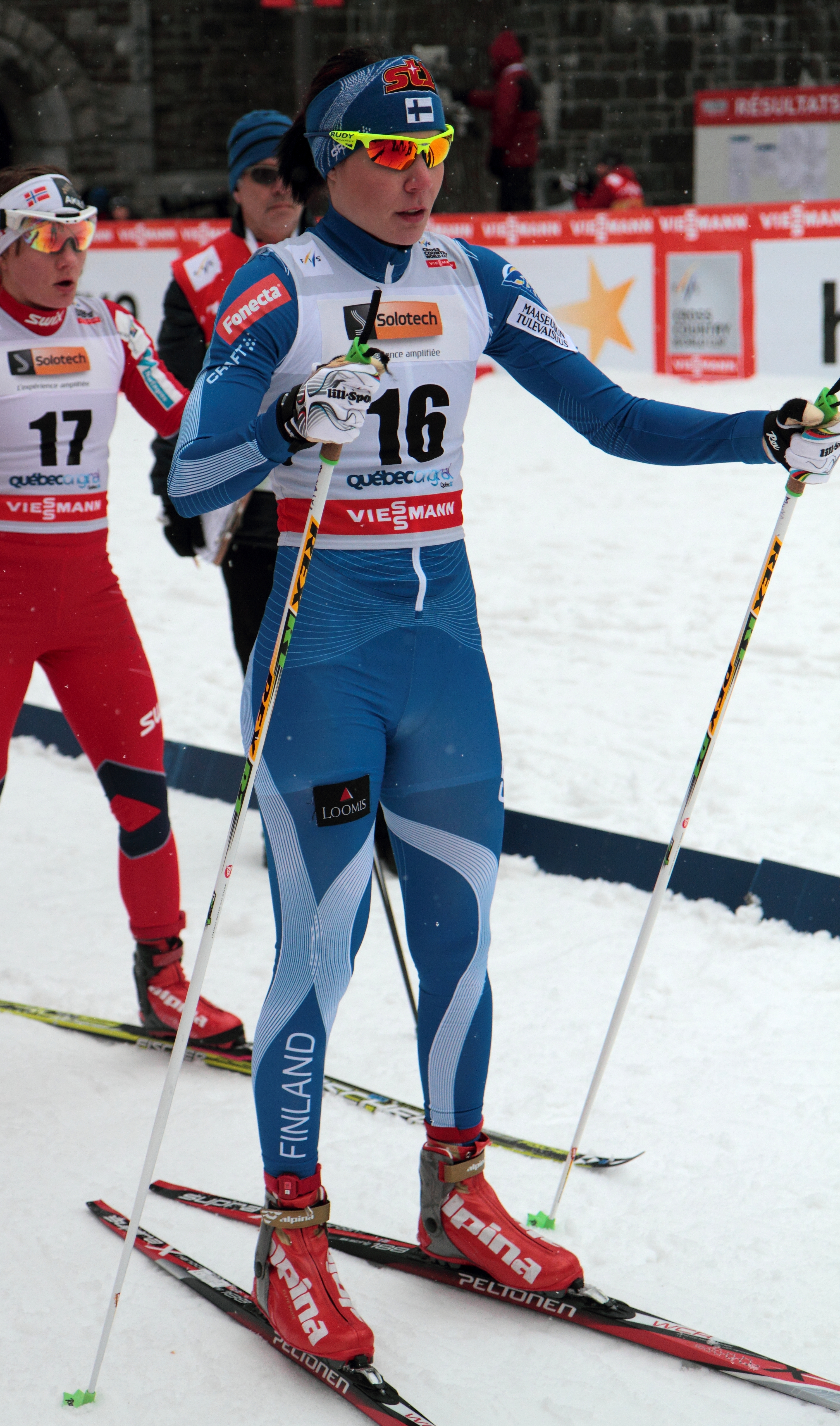 Mona-Lisa Malvalehto, FIS Cross-Country World Cup 2012, Quebec, Canada.